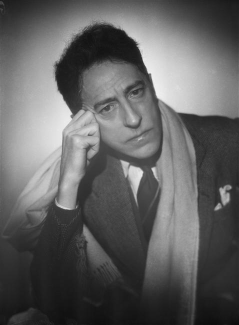 Studio photo